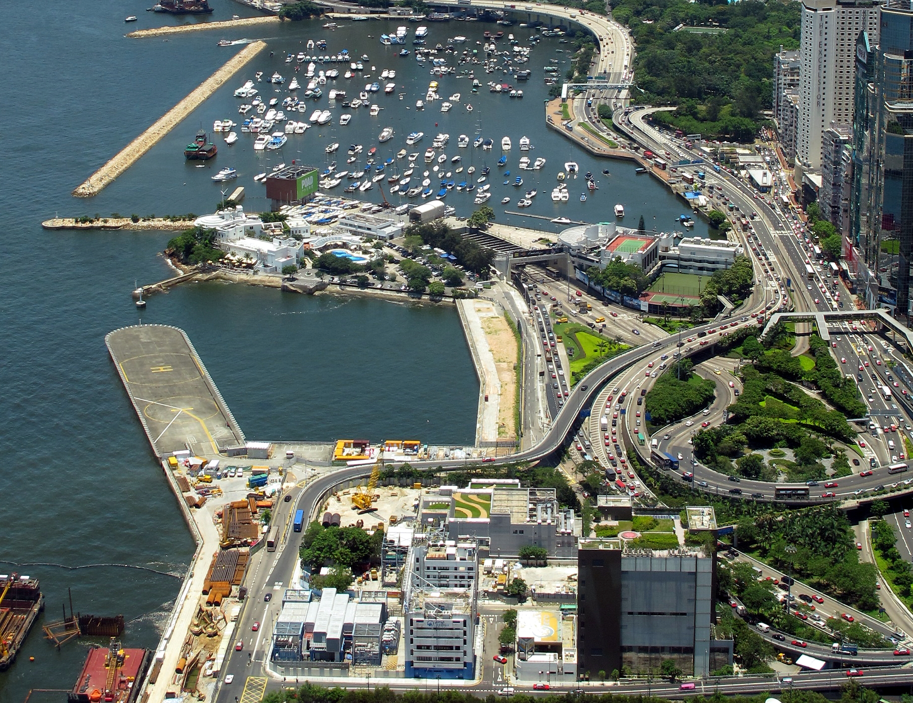 Cross Harbour Tunnel CWB Entrance view